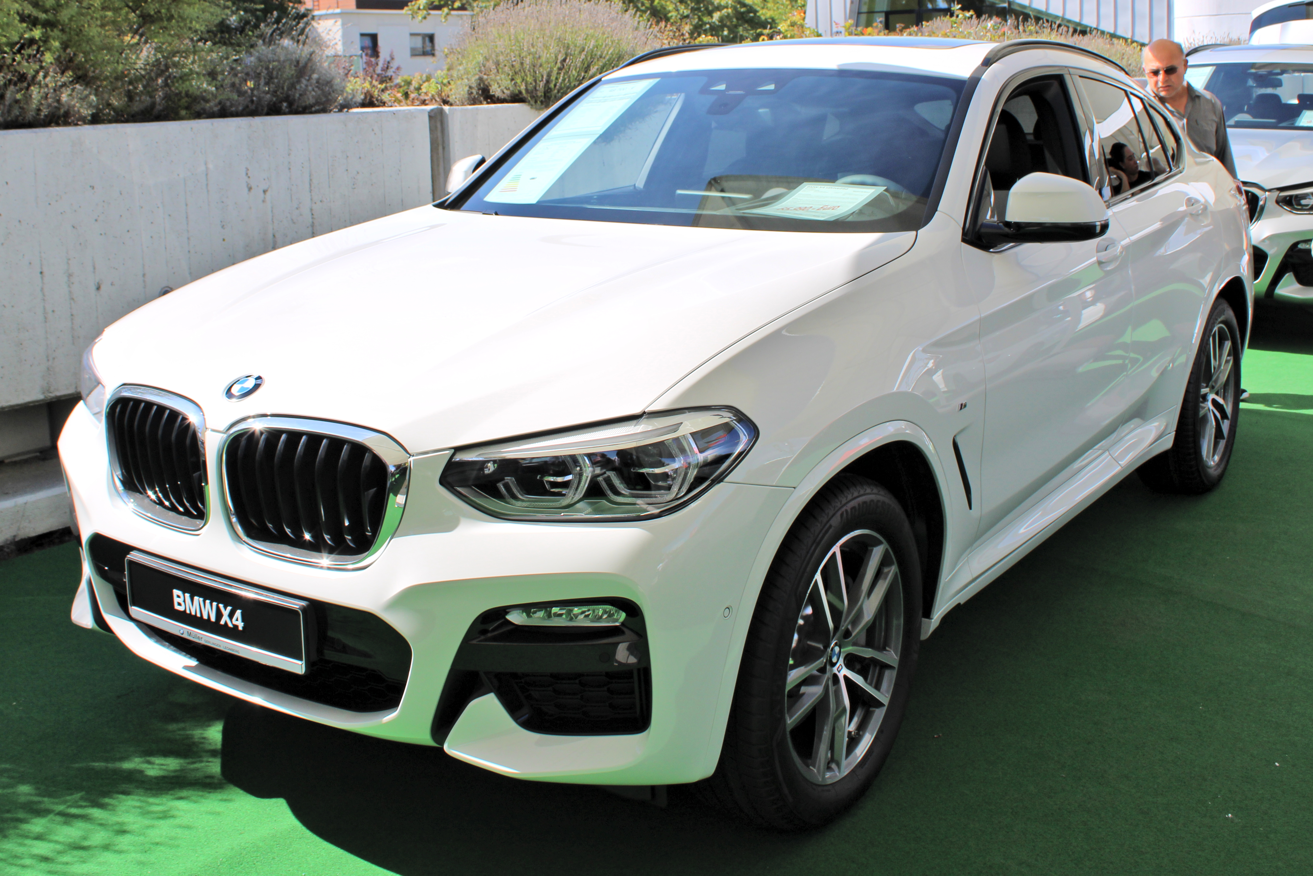 BMW G02